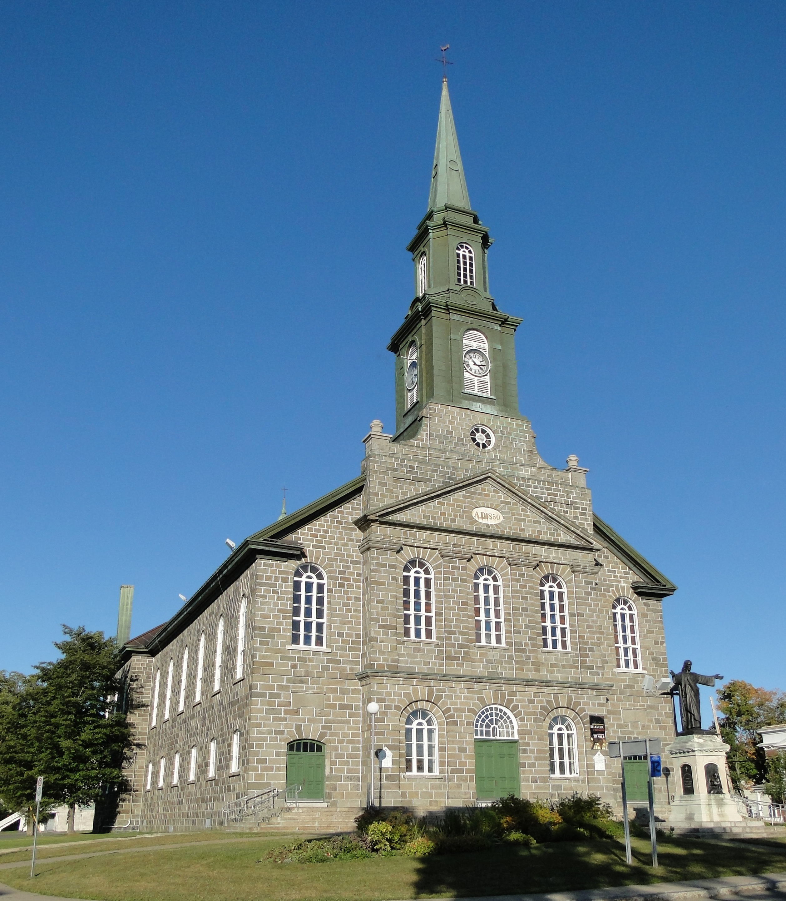 Notre-Dame-de-la-Victoire church (1851), Lévis, province of Quebec, Canada